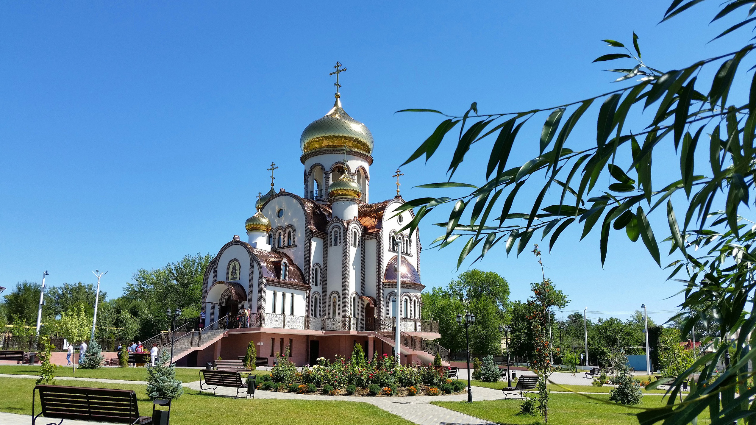 Temple martyr. Victor Nicomedia